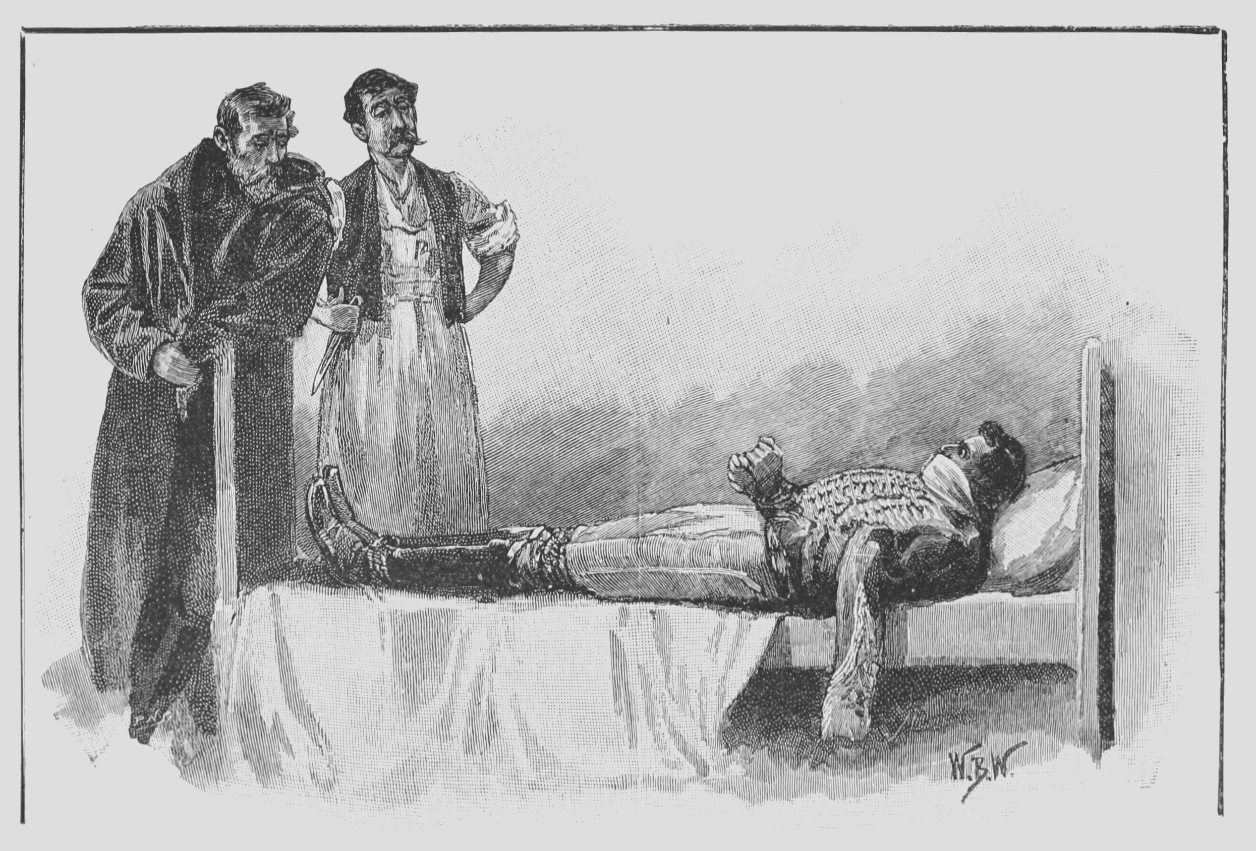 Plate of The Exploits of Brigadier Gerard